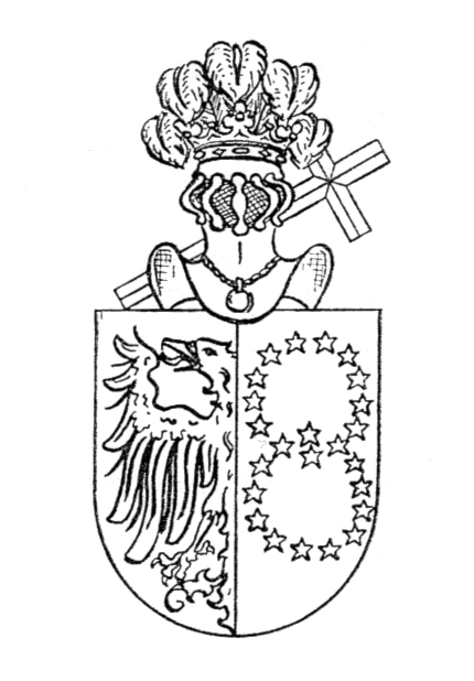 Coat of Arms of the german family von Graefe